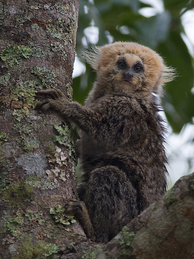 Buffy-headed marmoset (Callithrix flaviceps) in Espiríto Santo State, Brazil.